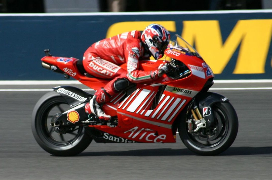 Casey Stoner, riding his Marlboro Ducati at the 2007 Australian Grand Prix in Philip Island.